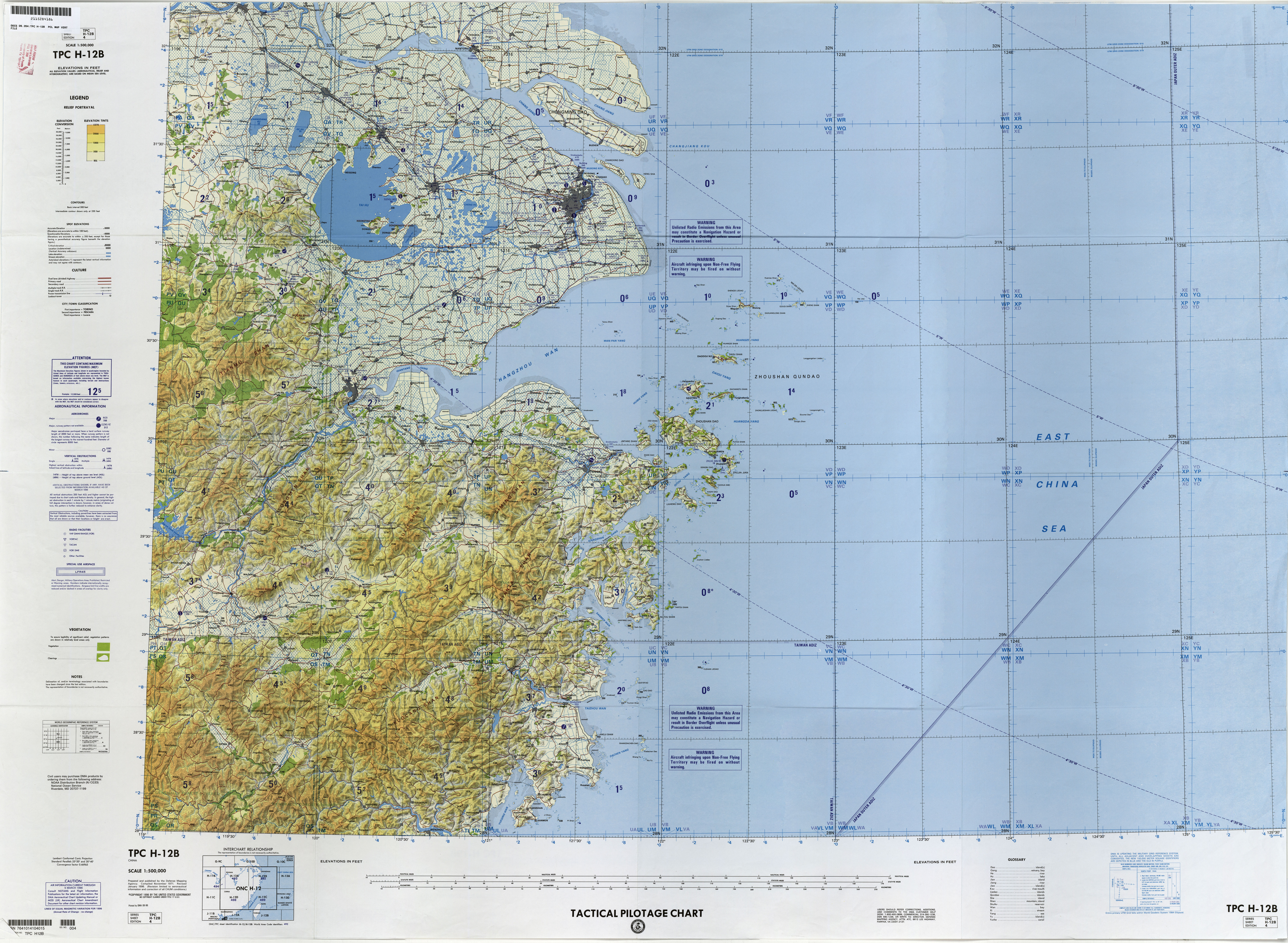 Tactical Pilotage Chart Series - World 1:500,000 Scale